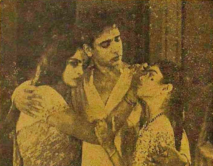 Krishnamurthy (MK Radha), Leelavathi (MR Gnanambal) and their daughter Lakshmi (MK Mani) in the film Sathi Leelavathi